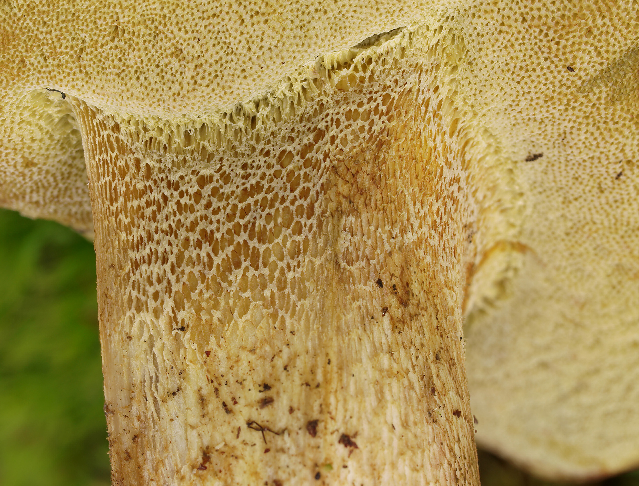 Boletus subappendiculatus